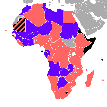 Status of countries with respect to 2012 Africa Cup of Nations: Qualified for ACN finals Failed to qualify for ACN finals Did not enter ACN Not an associate member of CAF